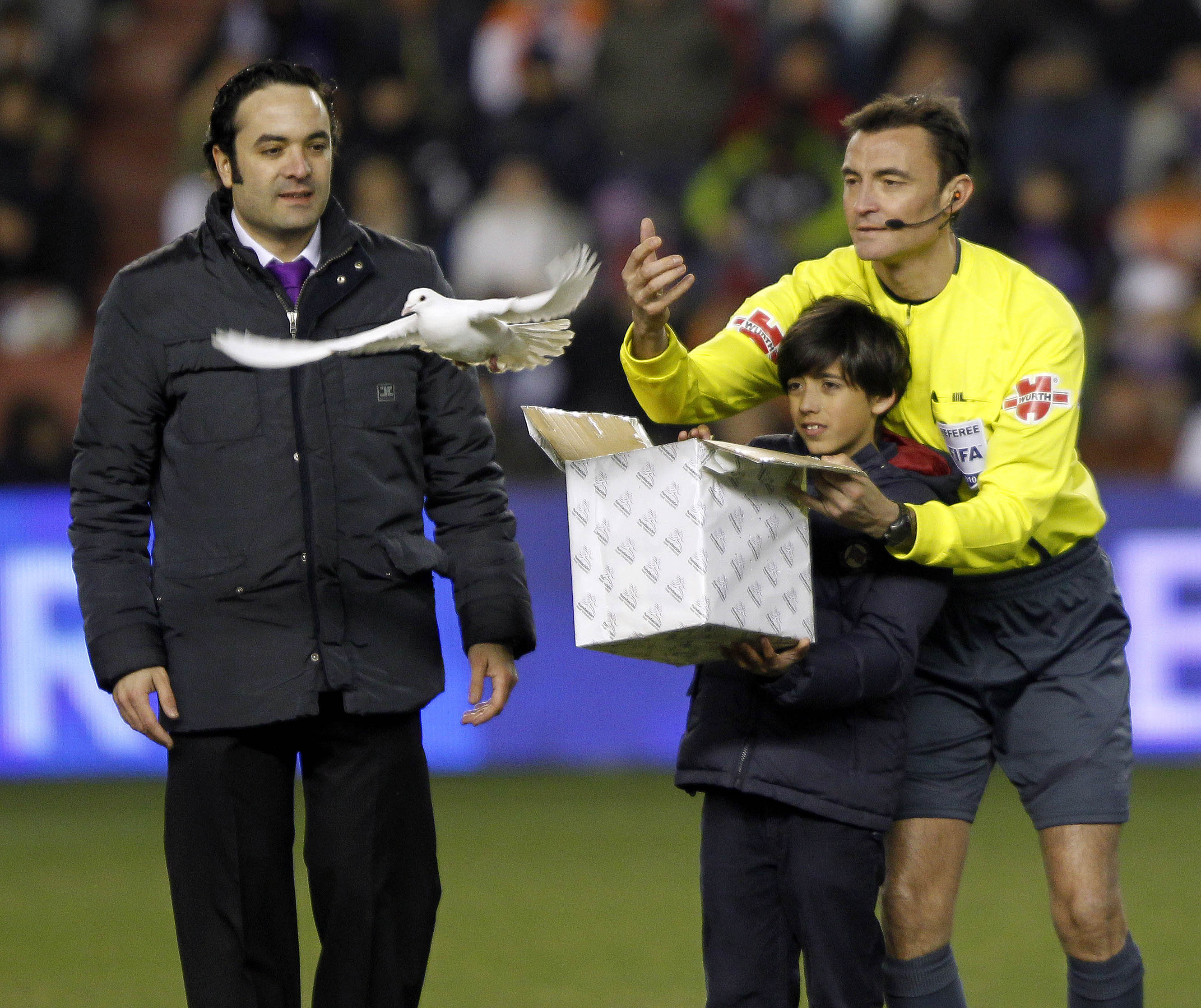 Miguel Delibes' tribute before the match between Real Valladolid and Real Madrid.